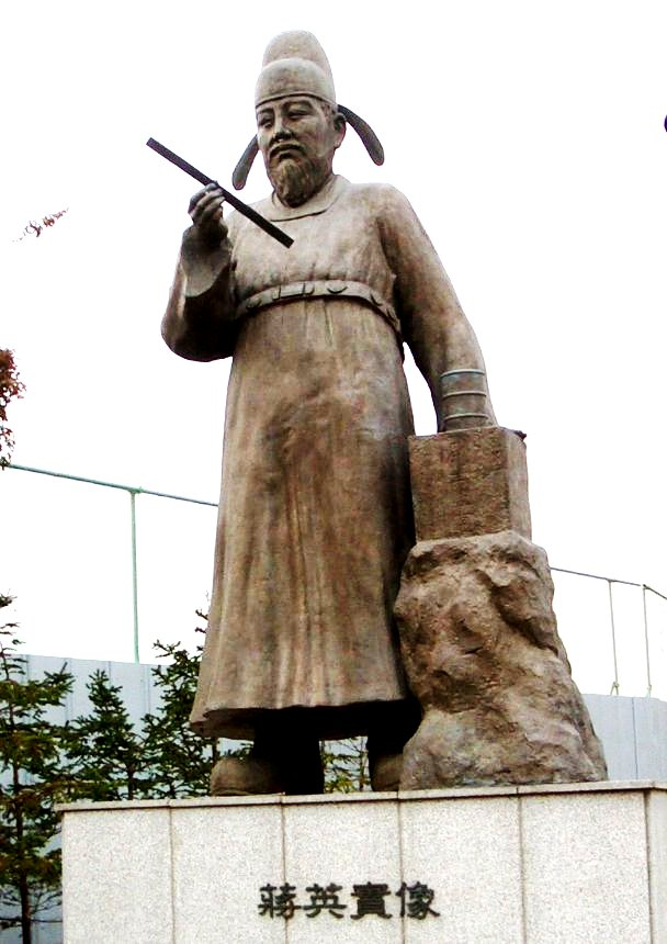 Statue of Jang Youngsil outside Cheonan-Asan Station, Asan, Korea